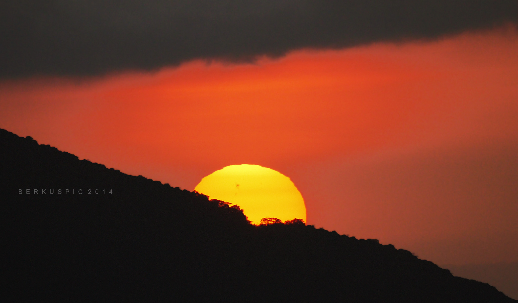 Solar spot visible as sun goes down behind Cerro Turrubares, Costa Rica.